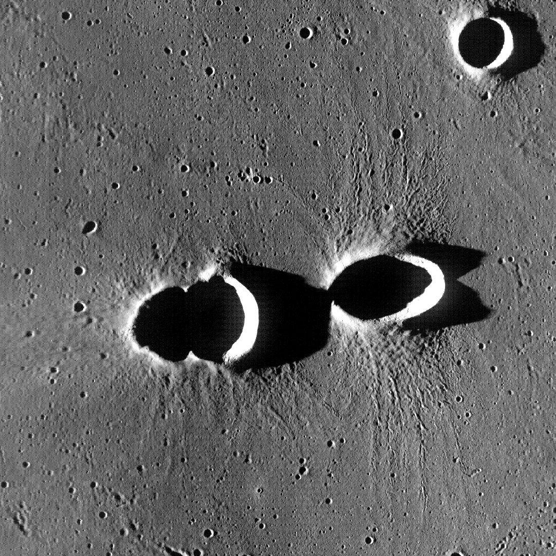 Craters Messier (right one), Messier A (left one) and Messier B (upper right one) on the Moon, in Mare Fecunditatis. Low sun clearly shows relief of ejecta. Photo by Lunar Reconnaissance Orbiter, made with Wide Angle Camera on 3 January 2010 from altitude 41 km. Sun elevation is 4.5°. Width of the photo is 70 km, north is up.